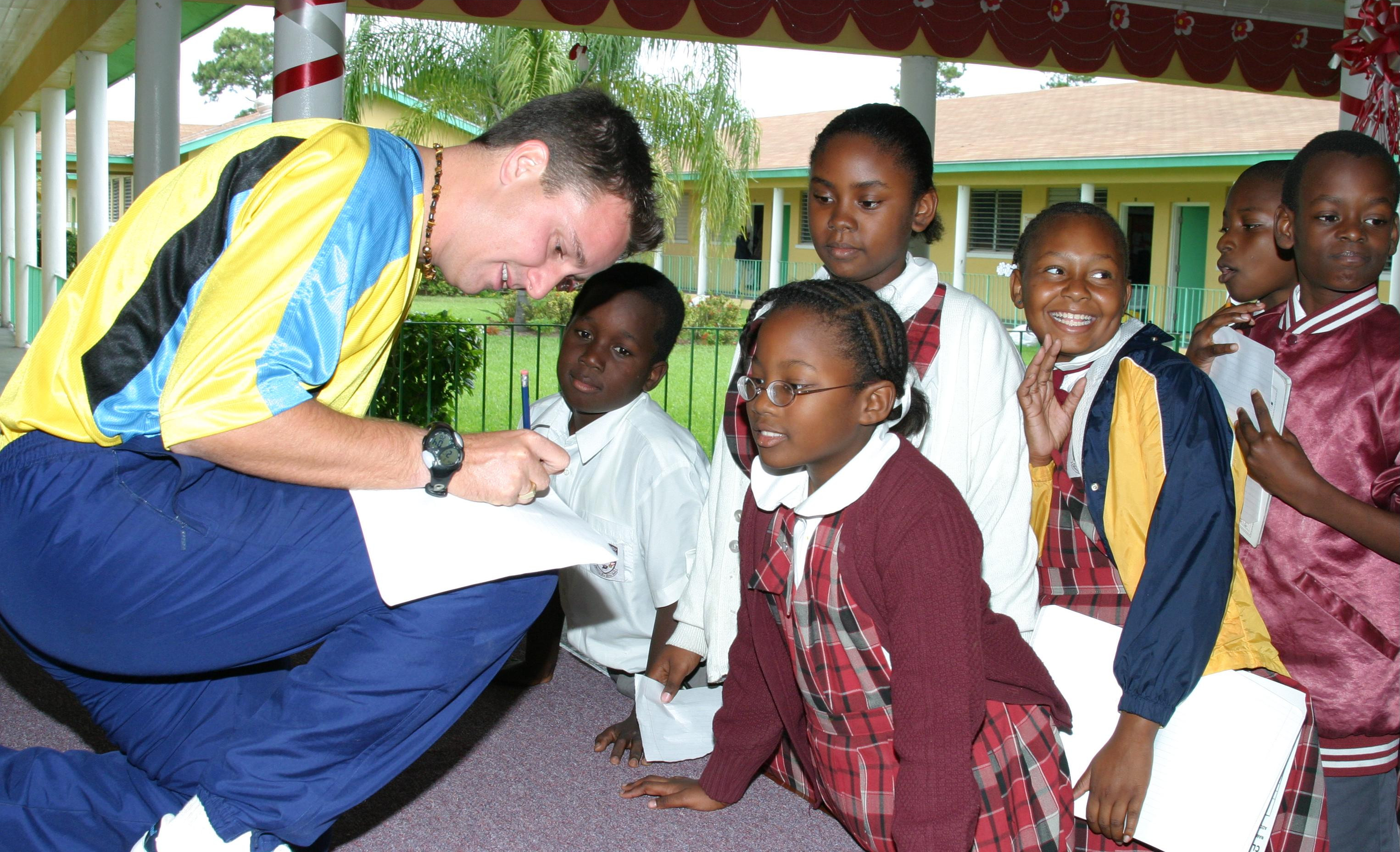 Gary White Visits Local School in the Bahamas.